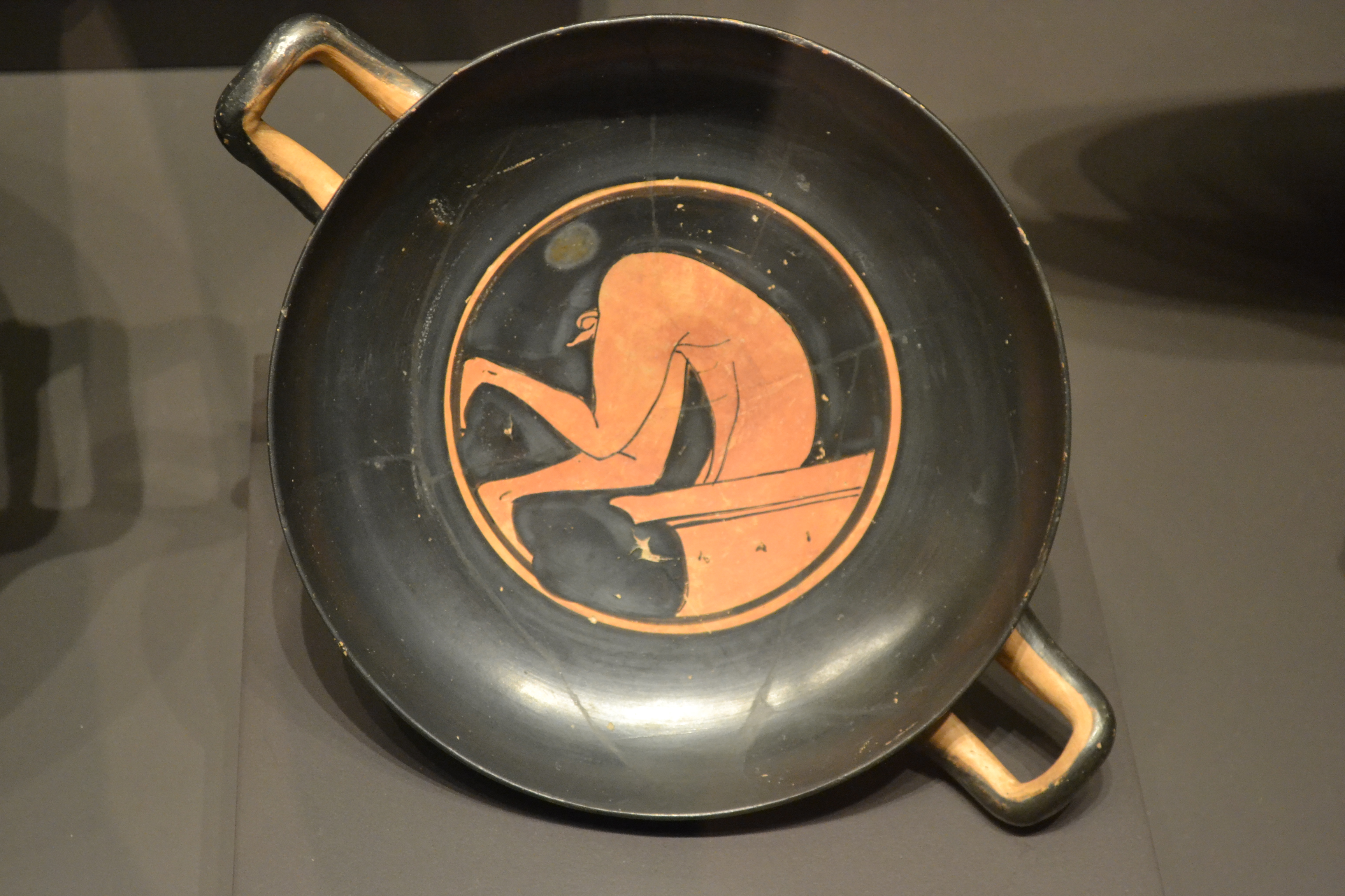 Cup of Euergides Painter. Inside the wine jar. 510-500 BC. National Archaeological Museum of Spain (M.A.N).